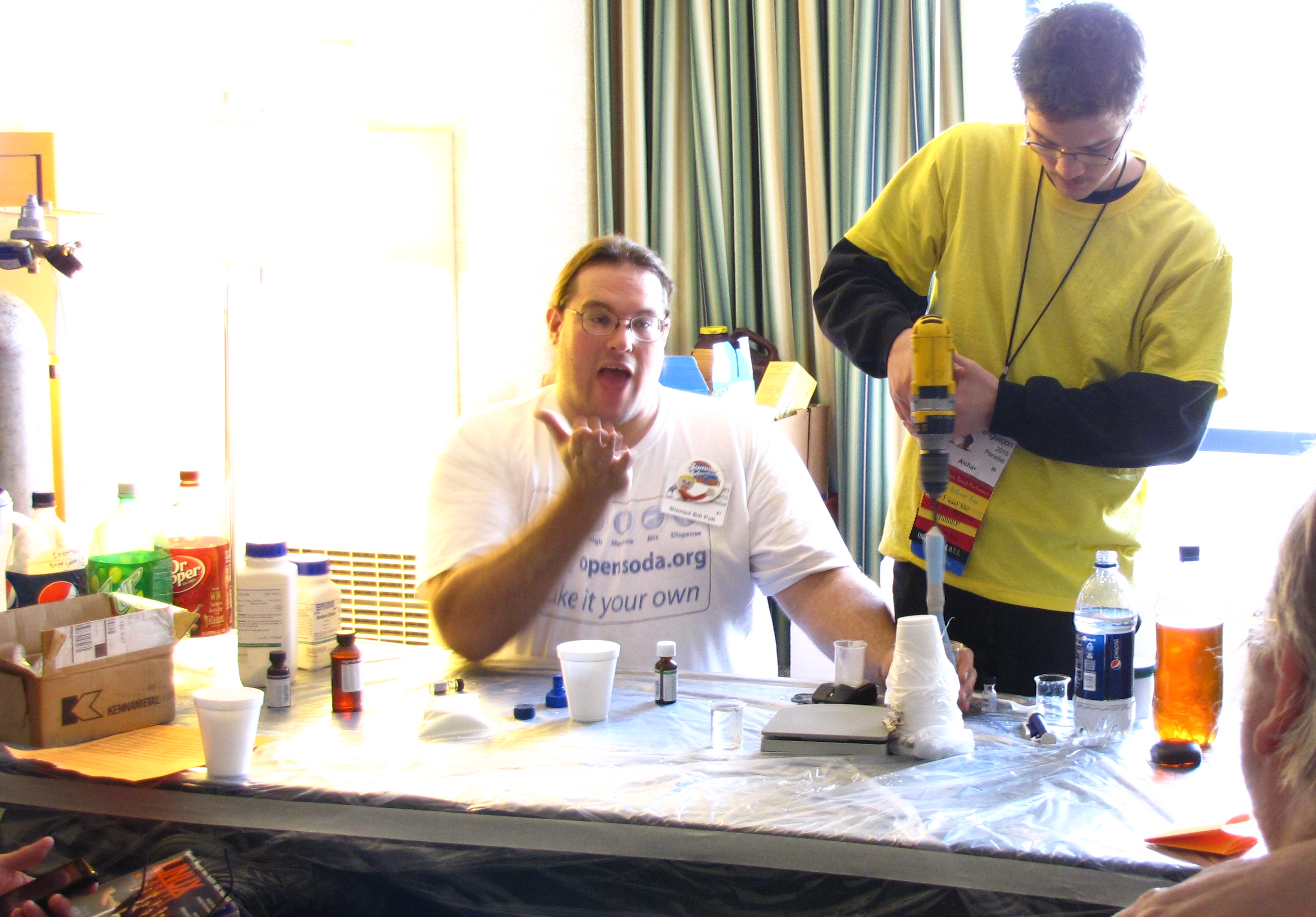 Open Cola: I missed most of this too. Penguicon 8, 2010